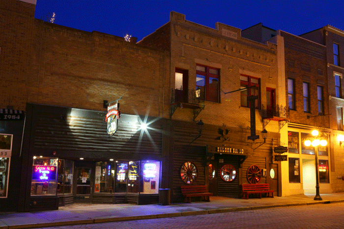 Exterior of saloon #10